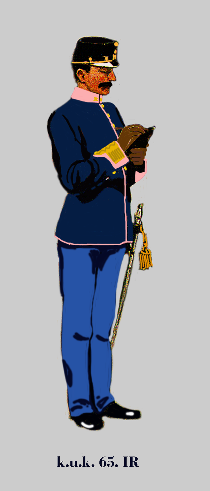 Lieutenant of the Austria-Hungarian (k.u.k.). 65th hungarian Infantry Regiment in Service dress 1914